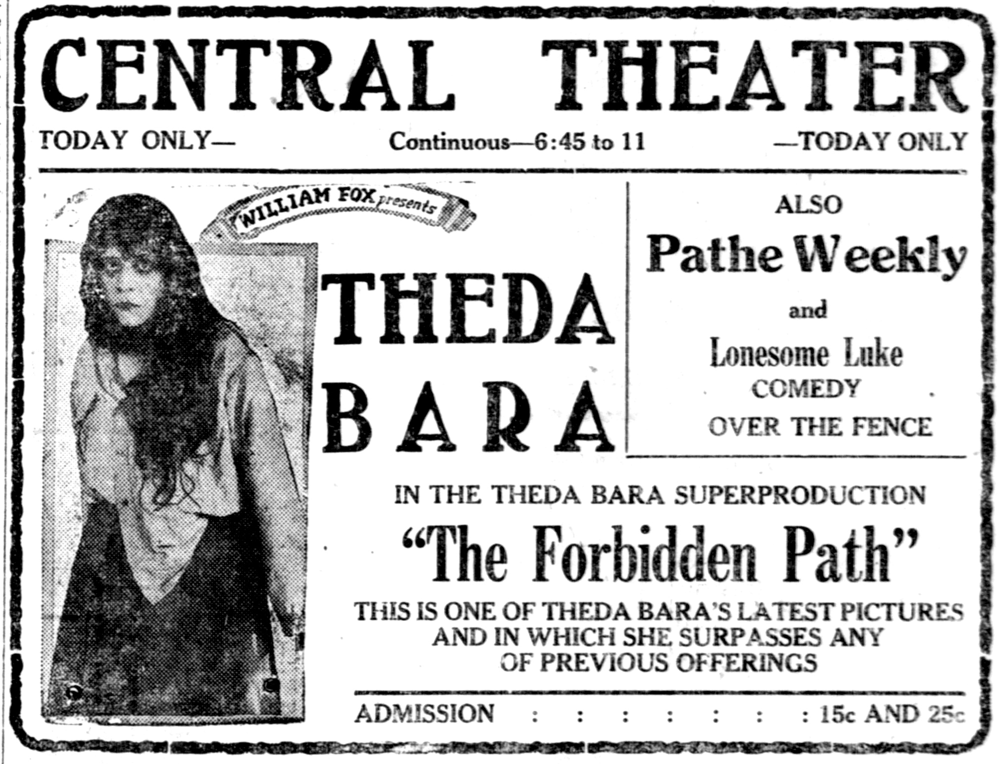 The Forbidden Path was a 1918 American silent drama film directed by J. Gordon Edwards and starring Theda Bara. This is a newspaper advertisement for the film.